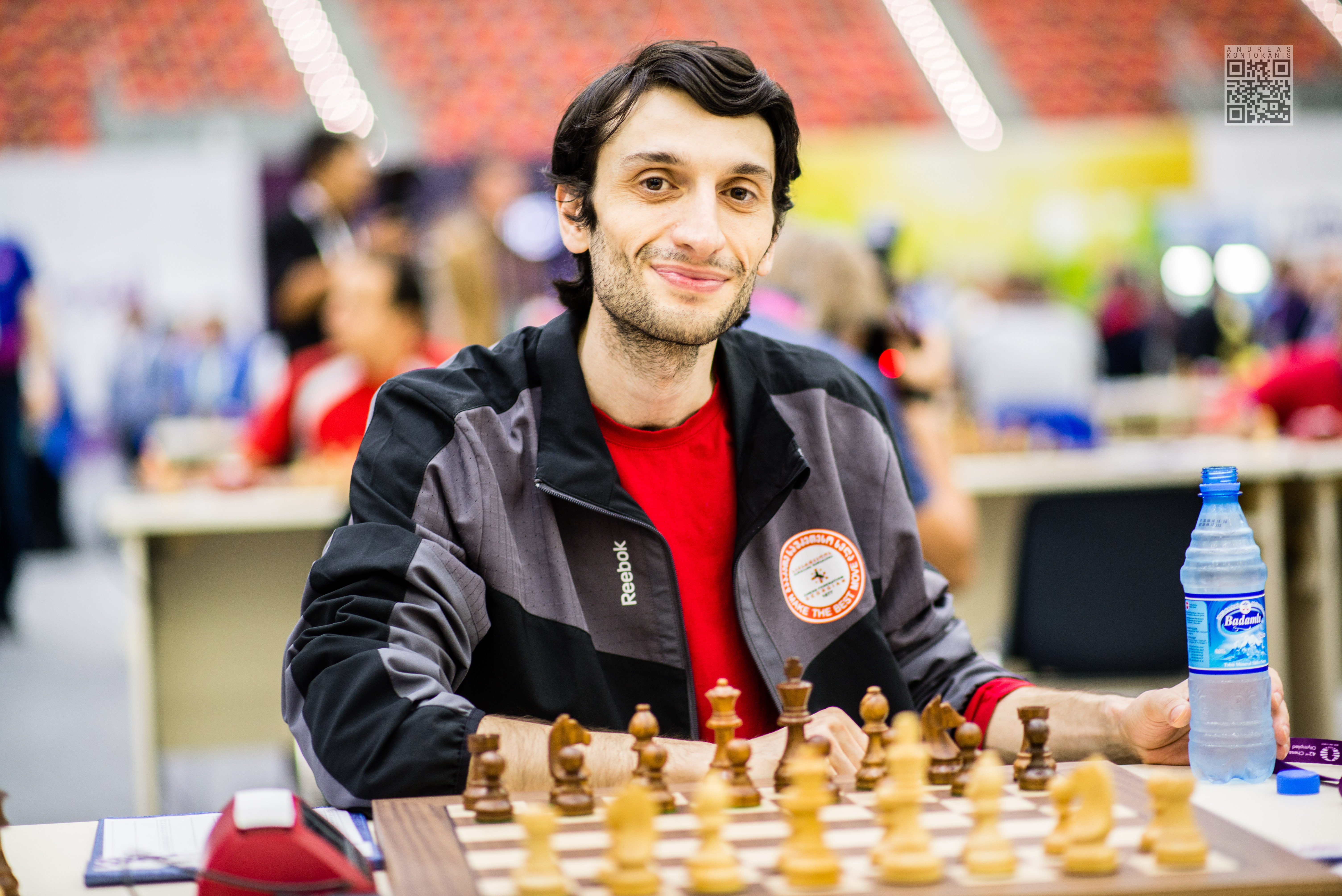 Jobava Baadur